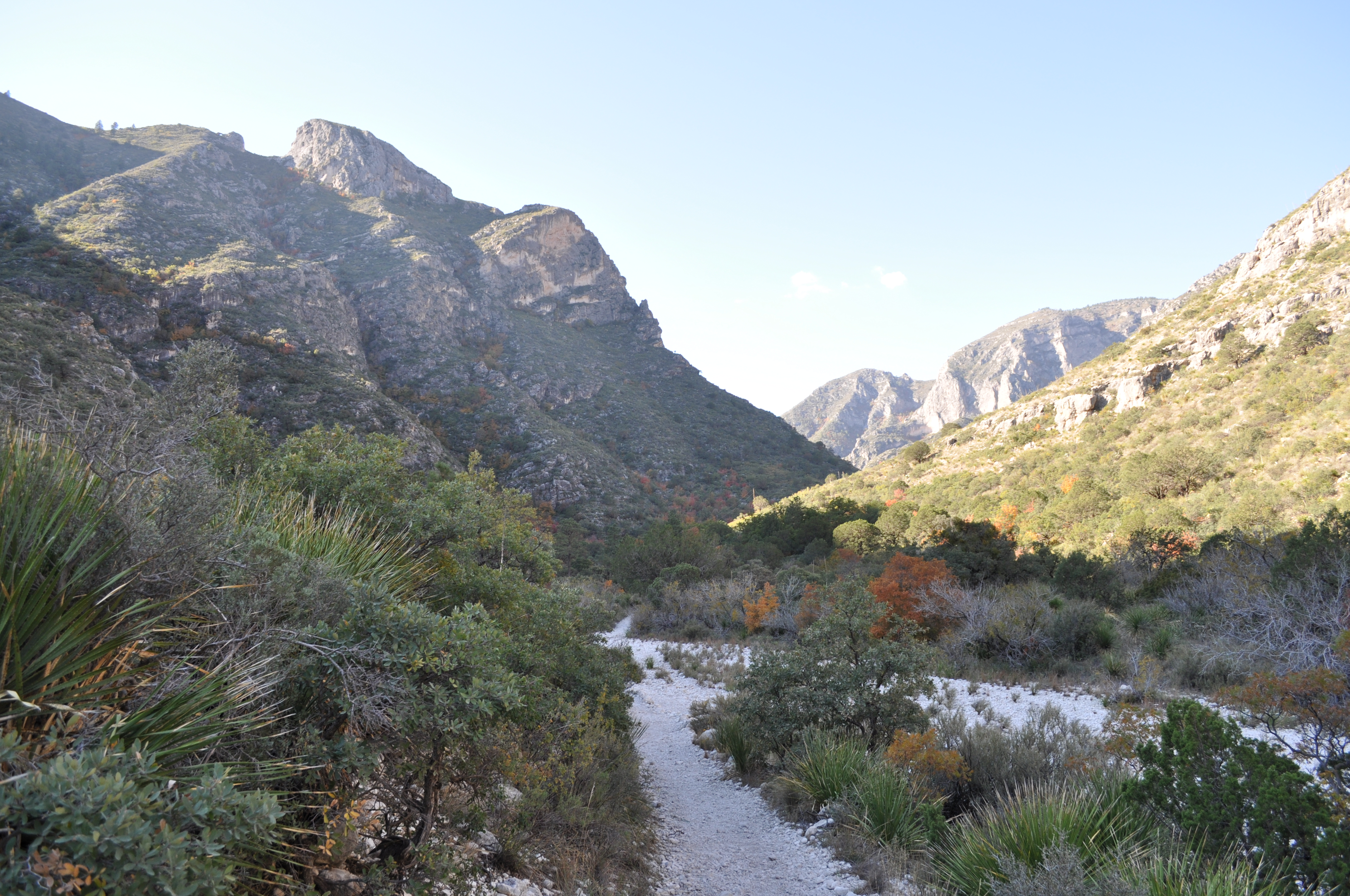 The McKittrick Canyon Trail heading towards Pratt Cabin from the trailhead in Guadalupe Mountains National Park, Texas.